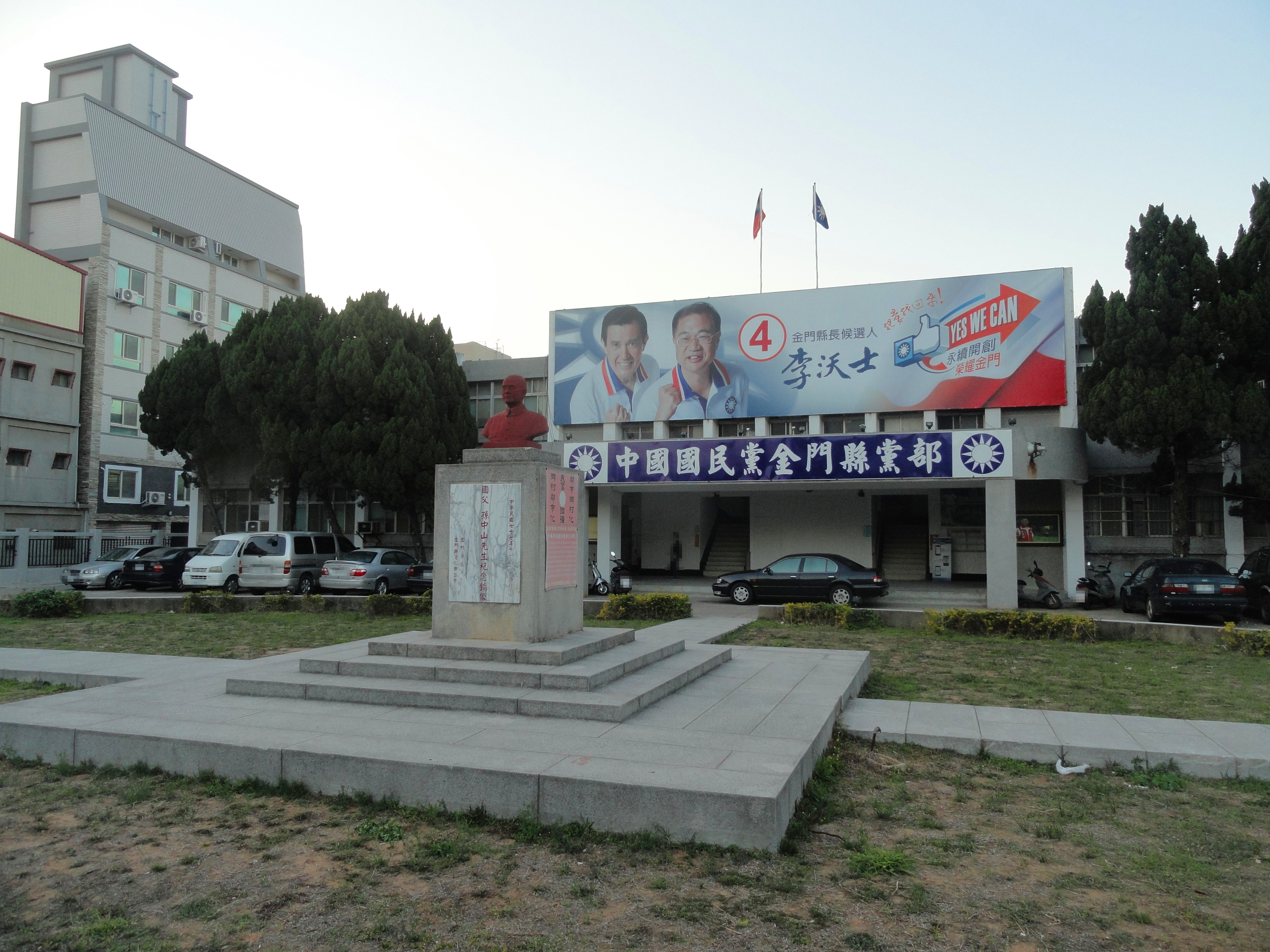 Kuomintang Kinmen Headquarter Office, Jincheng Township, Kinmen County